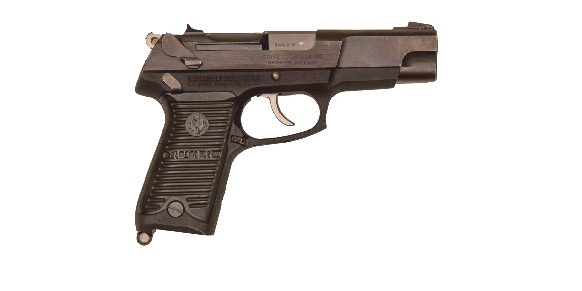 Picture of Ruger Make: P89 Caliber: 9mm